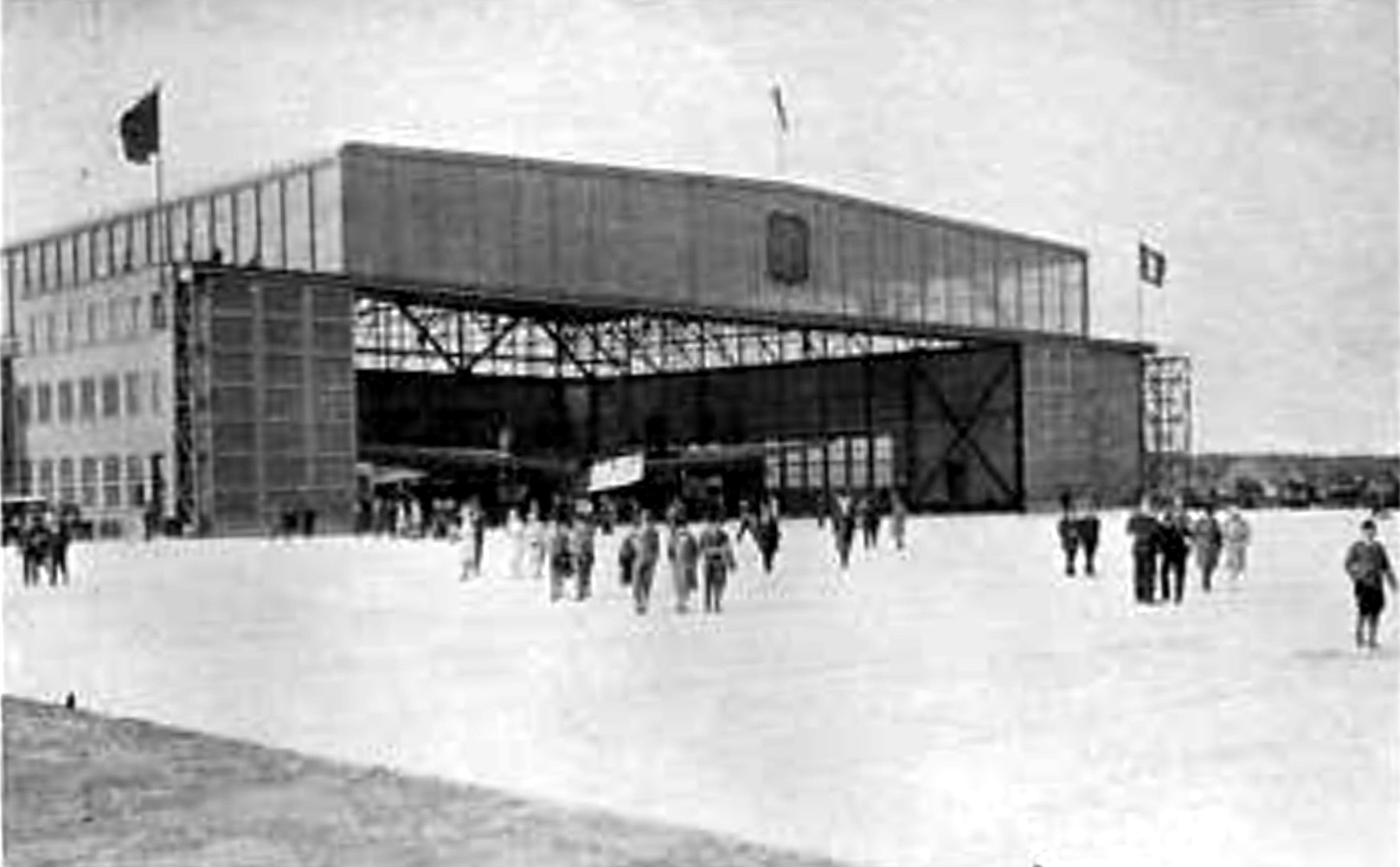 Hangar of Airport Lübeck-Travemünde, on the Priwall peninsula. Erected in 1928, dismantled 1945-1947